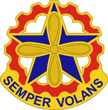 Distinctive Unit Insignia of the 1109th Aviation Classification Repair Activity Depot (AVCRAD), ARNG CT.